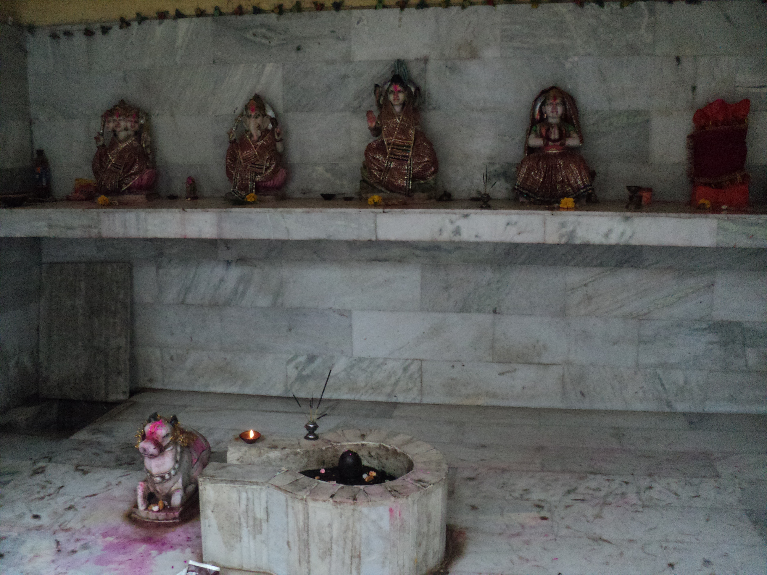 photo of temple in nooriganj